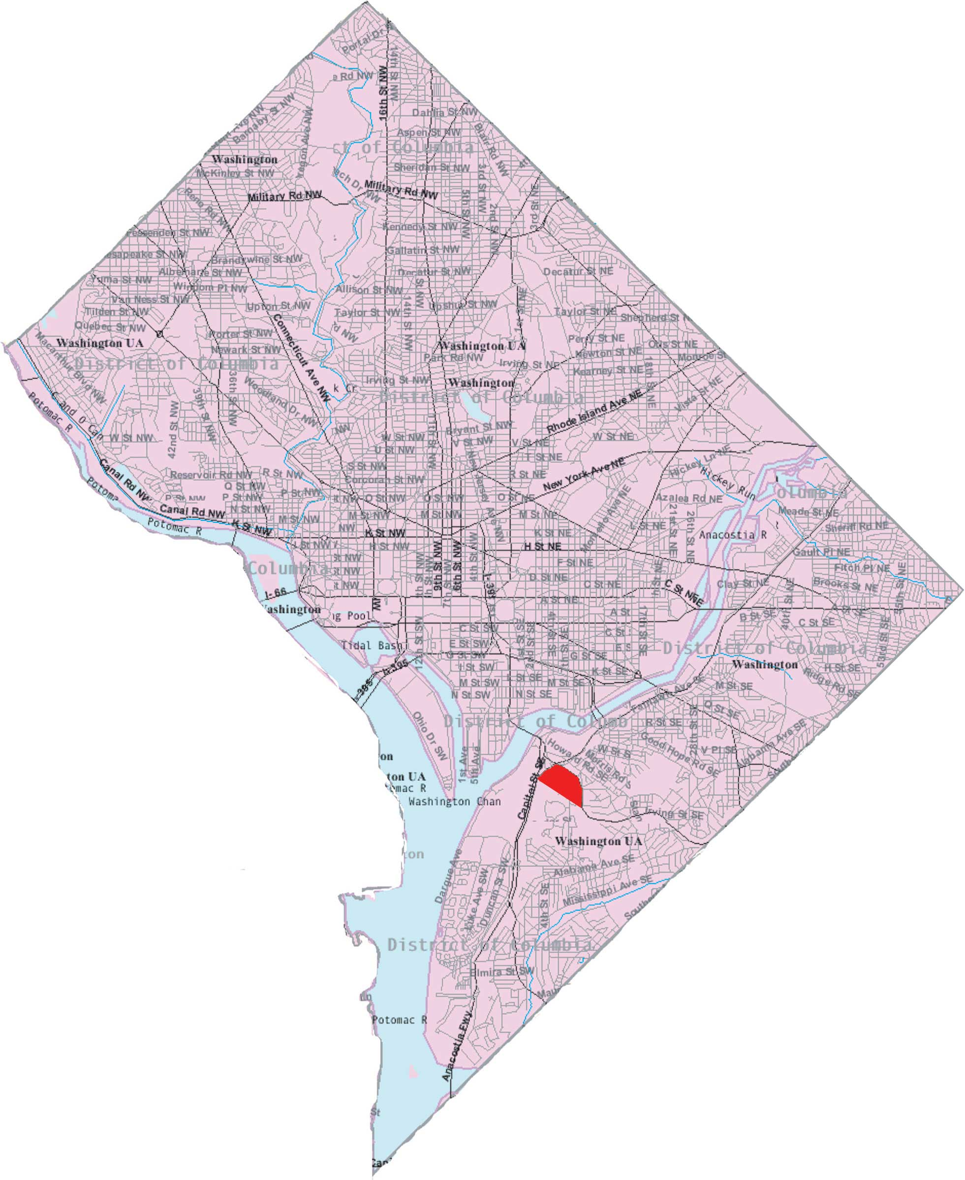 This image is a modified version of a self-generated reference map from the U.S. Census Bureau's American Factfinder at by Wikipedia user Msclguru.